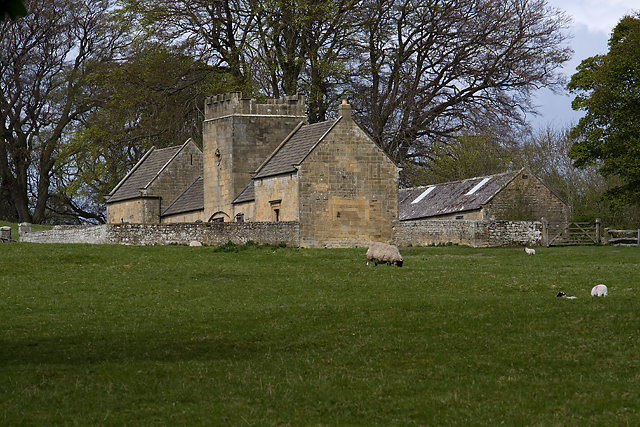 Bitchfield Pele Tower